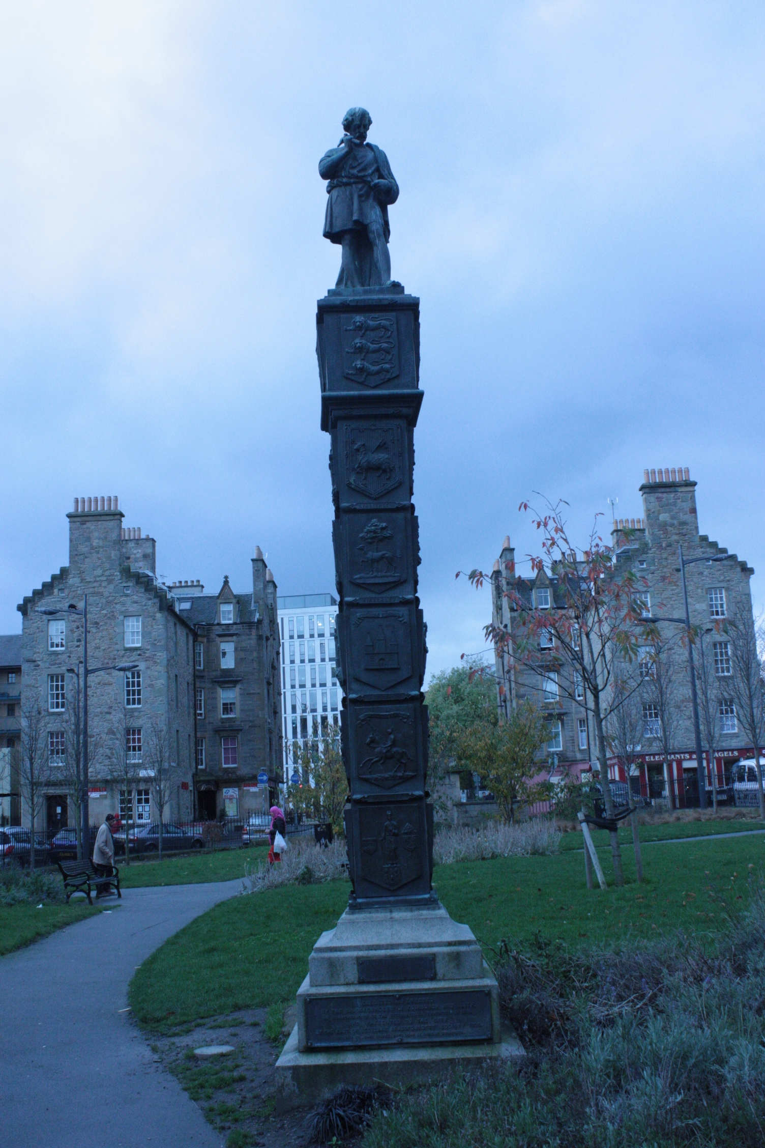 Column created for the Edinburgh Internationasl Exhibition of 1886 on the Meadows. Sited here after it ended.